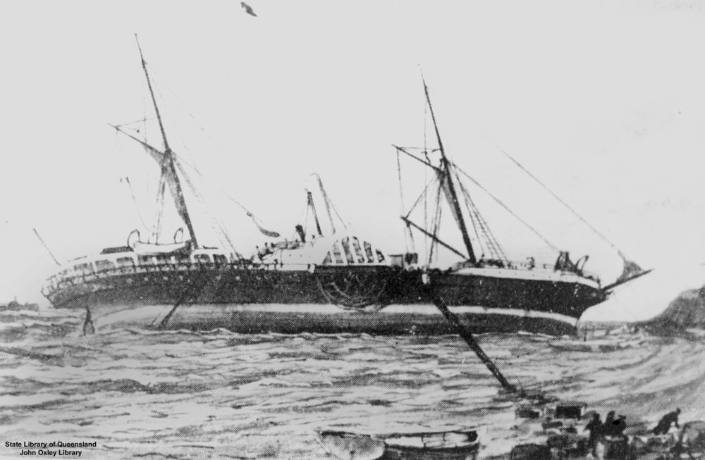 Collaroy (ship) Wreck of the Collaroy.